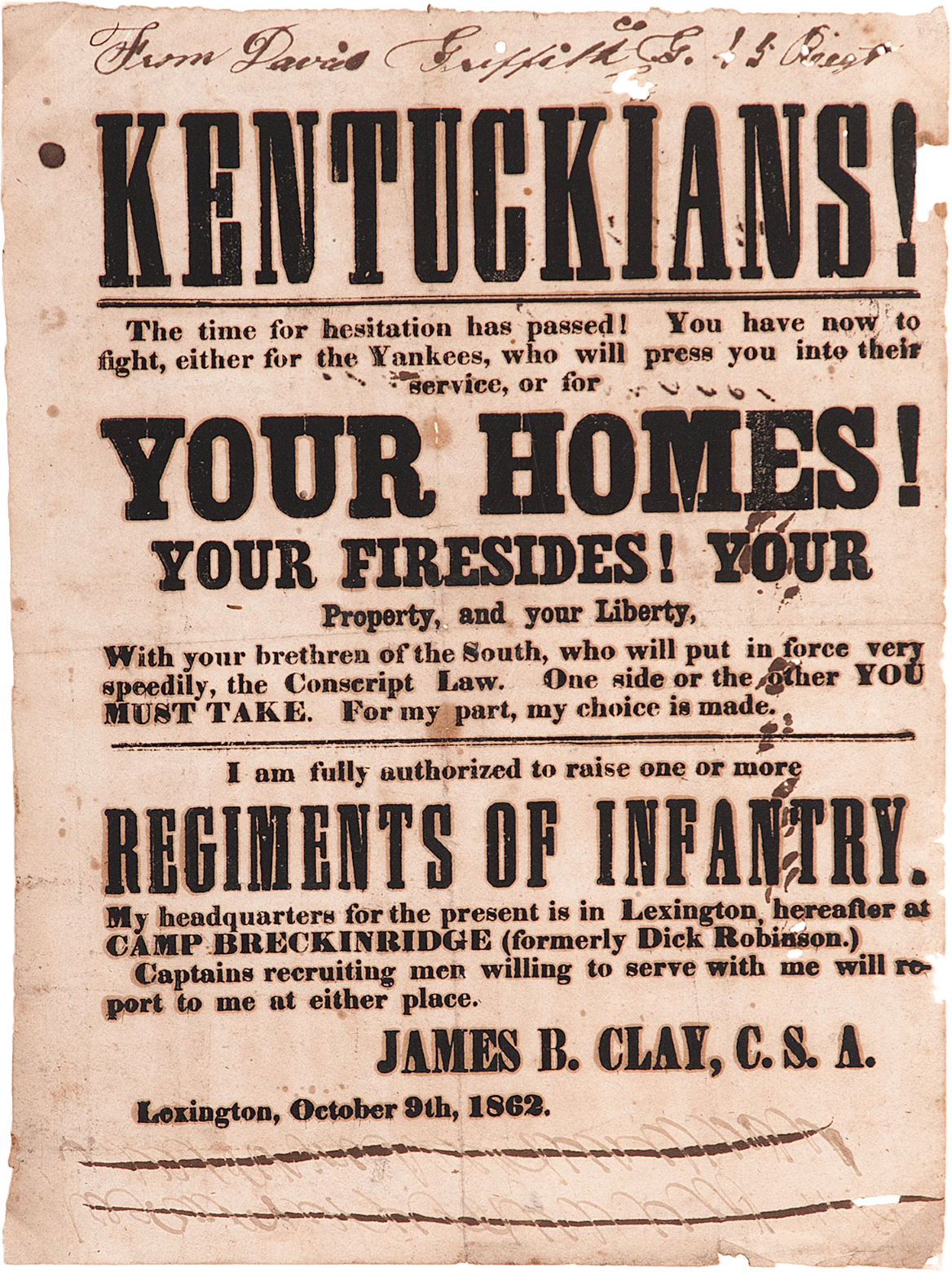 Printed broadside issued by Henry Clay's son, Lt. James B. Clay, in which he makes a plea for Southern sympathizers to defend their homes from Yankee invasion. Lexington, KY. October 9, 1862. 9 x 12 in.